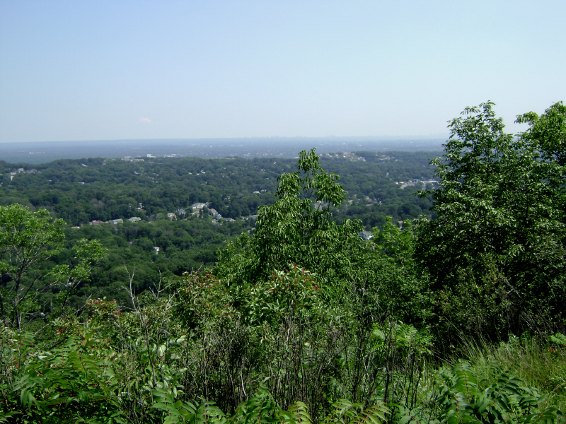 The western flank of Goffle Hill can be seen from High Mountain on August 1, 2009. The wide, shallow valley between the Watchungs and the Palisades can be seen beyond the crest of Goffle Hill.